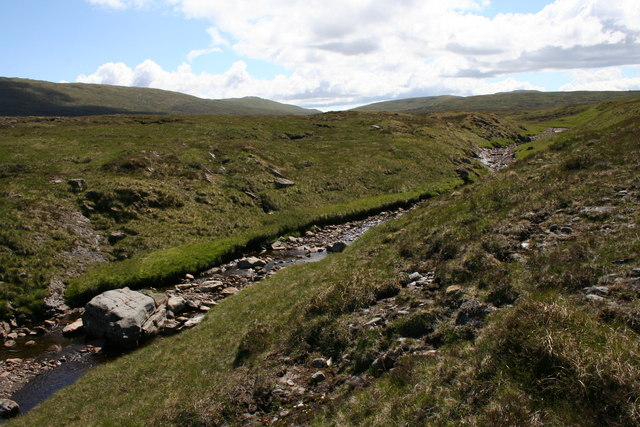 River Tarff above Loch an t-Seilich The river has eroded a very discrete valley in the general plateau level.